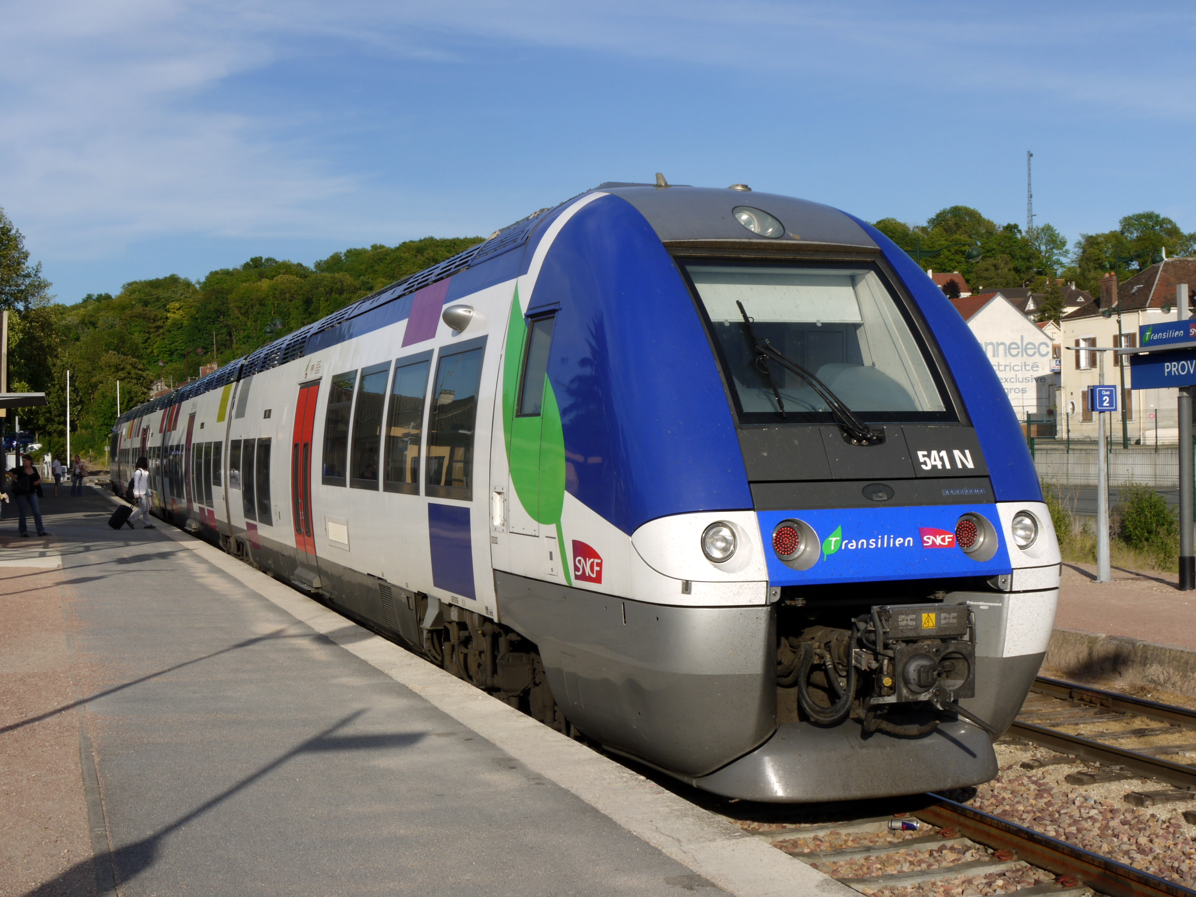 Hybrid multi-system electro-diesel multiple units class B82500 capable of operating on diesel power, and under 1.5 kV DC and 25 kV 50 Hz AC electrification. Provins station , Seine et Marne, France